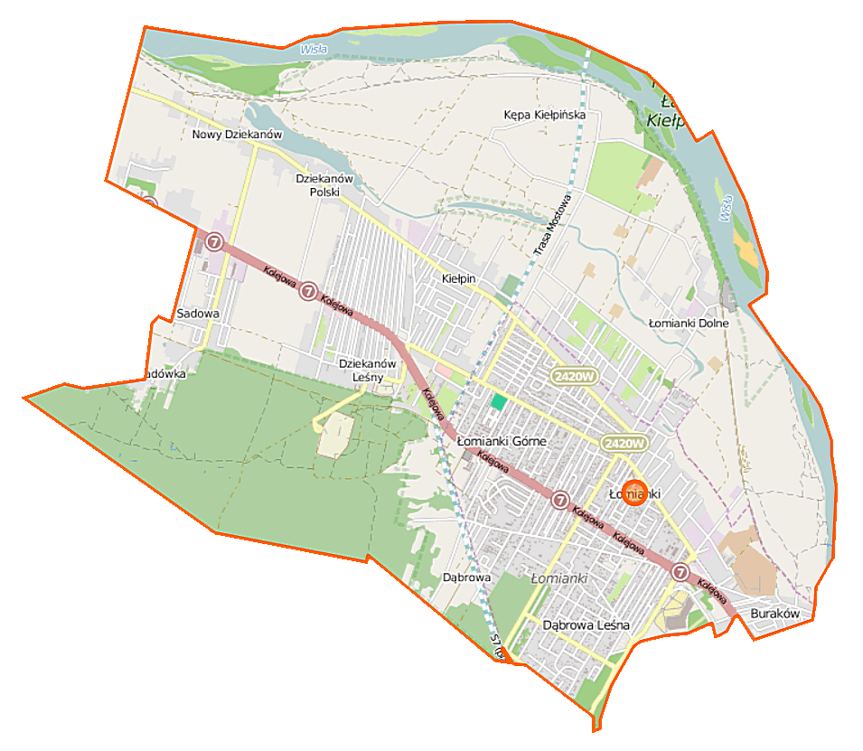 Map of Gmina Łomianki, Poland This map of Łomianki (gmina) was created from OpenStreetMap project data, collected by the community. This map may be incomplete, and may contain errors. Don't rely solely on it for navigation. Border coordinates52.381320.7983←↕→20.929652.3115